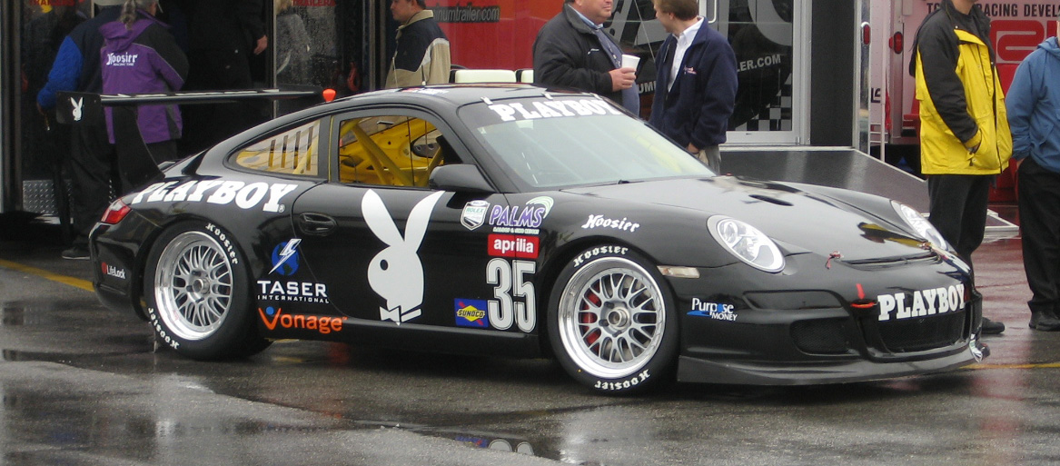 Photograph I took at the 2007 24 Hours of Daytona of a Porsche 997 GT3 Cup with Playboy advertisement.